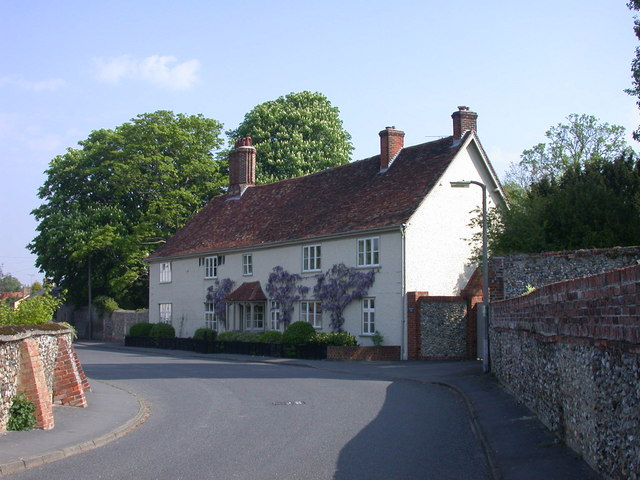 Norman Hall, Ickleton, Cambridgeshire. Not a Norman building but a 15th-century one with 16th century and later alterations.